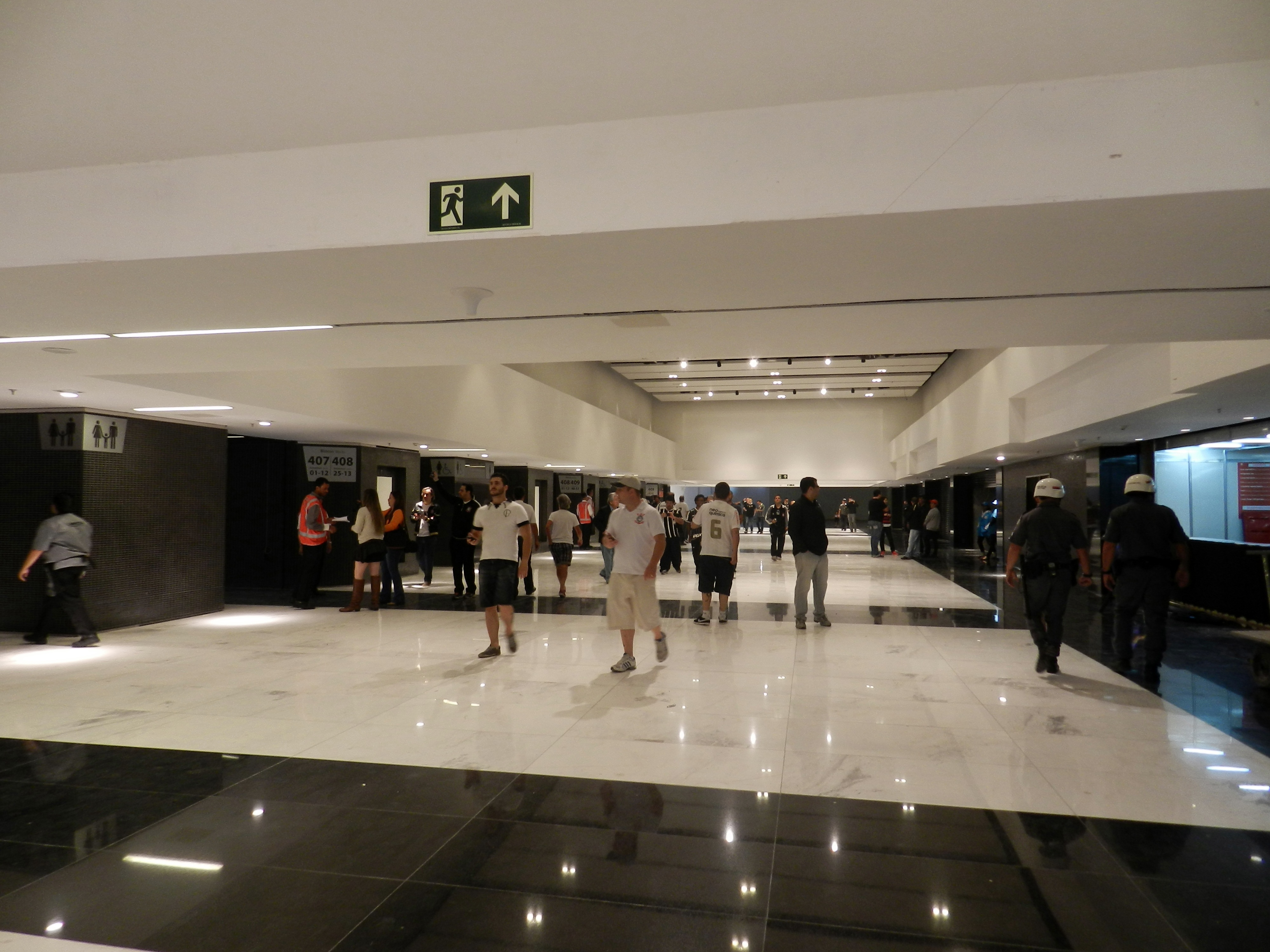 Arena Corinthians East Concourse